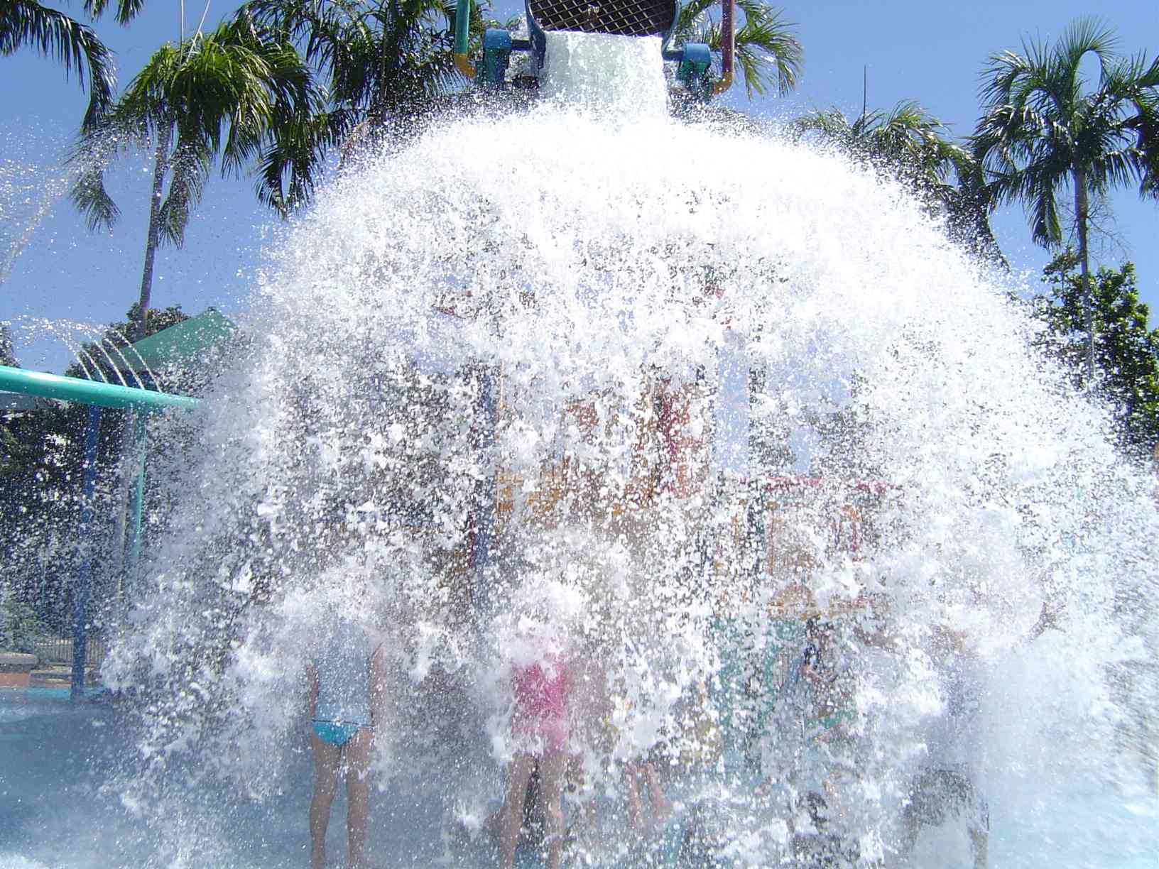 Picture of the water bucket overflowing at the Townsville water playground.